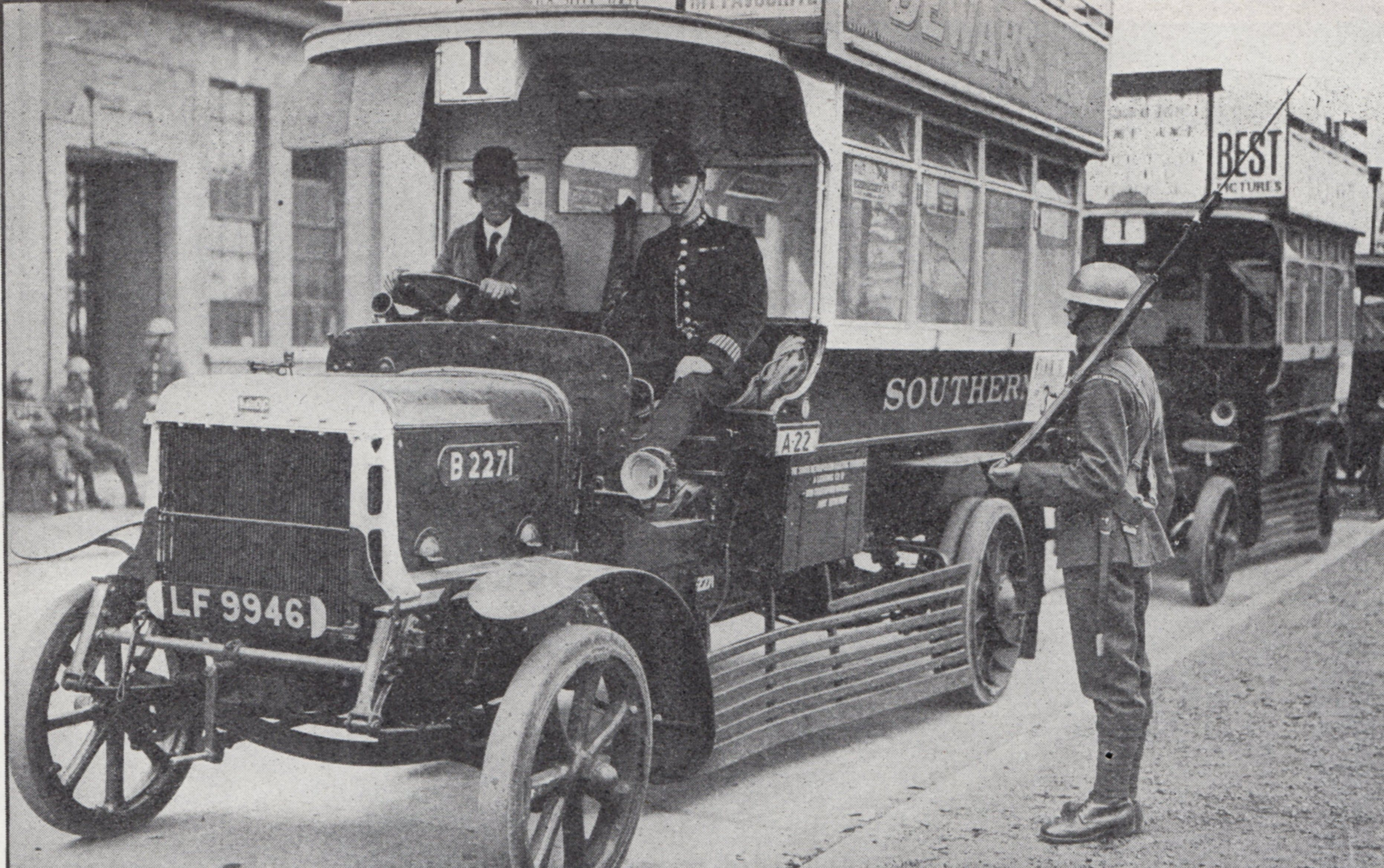 Troops on guard at omnibus station, each bus had a police escort during the General Strike of 1926.